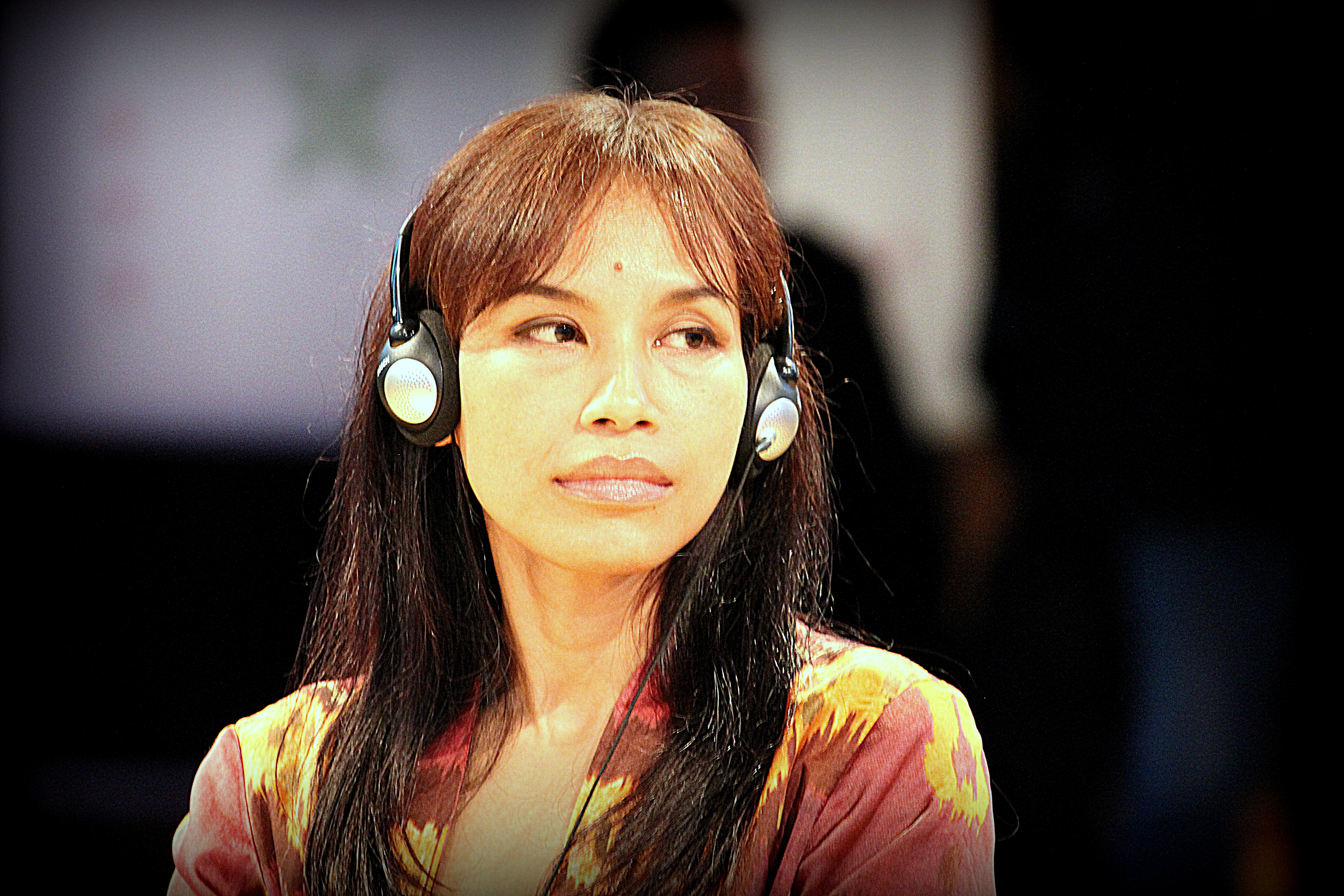 Ayu Utami at Frankfurt Book Fair 2015